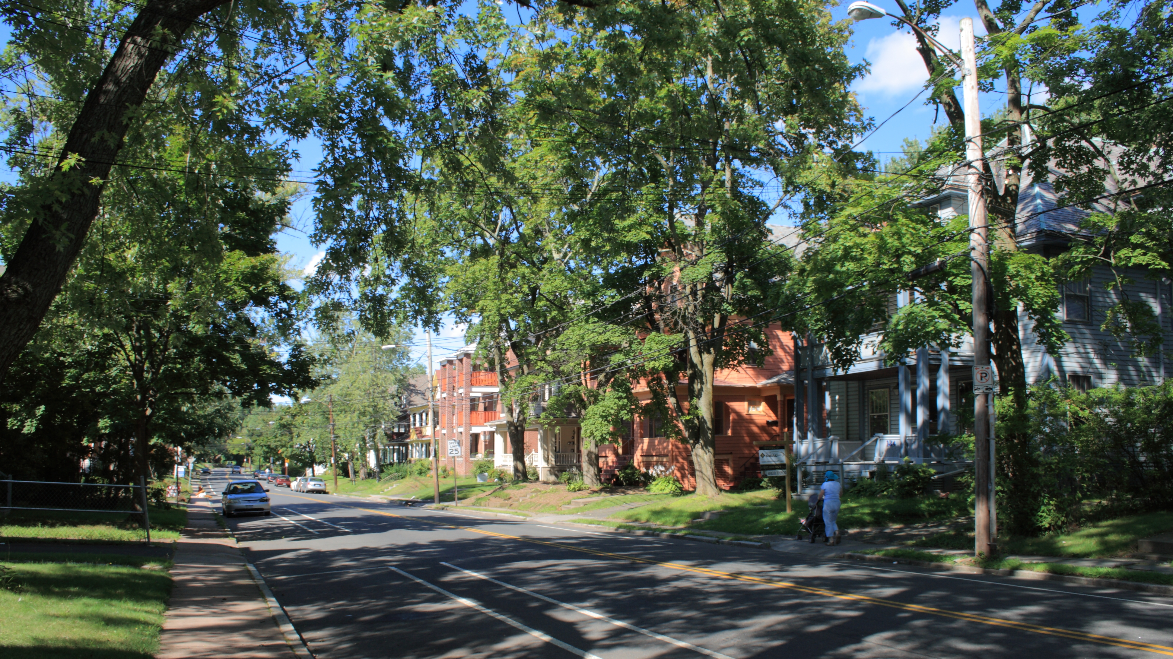 A view North up Whitney St. from the corner of Fern St. and Whitney St., within the West End North Historic District in Hartford/West Hartford, Connecticut, a Registered Historic Place